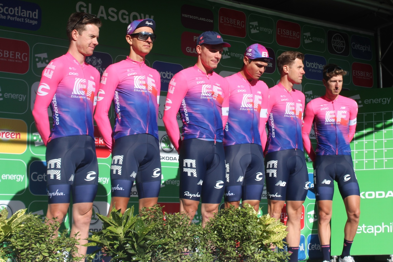 The EF Education First cycling team at the start of the 2019 Tour of Britain. The riders are Simon Clarke, Sacha Modolo, Moreno Hofland, Tanel Kangert, Sebastian Langeveld and Luis Villalobos.